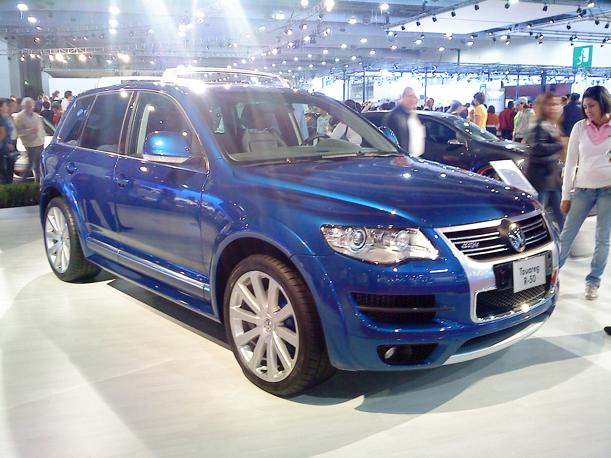 Volkswagen Touareg R50 at the 2008 SIAM.